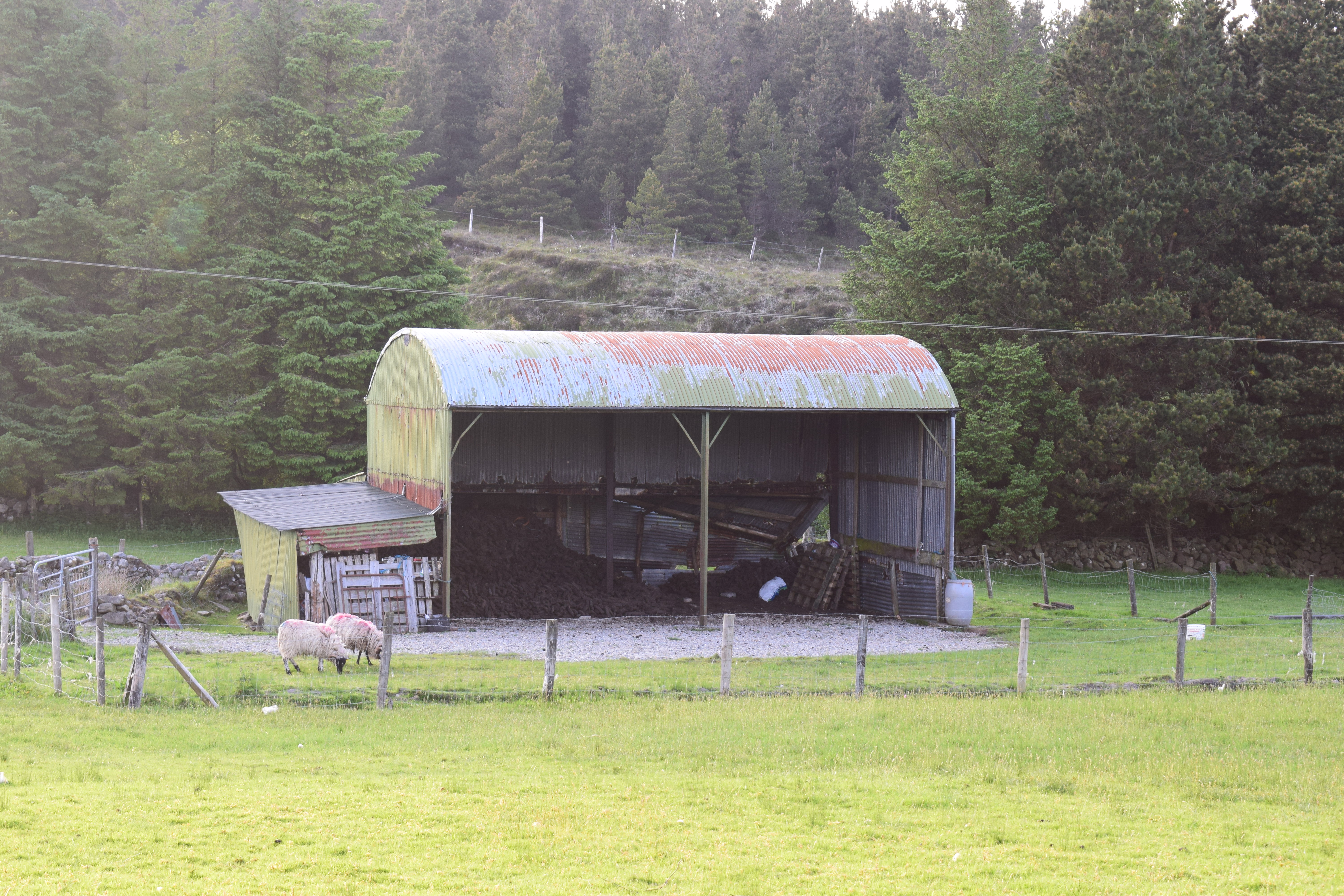 Traditional barn at Barrooskey, serving as storage for turf (peat) and hey. Also, during the lambing season is used as a shelter for lambing and shearing.